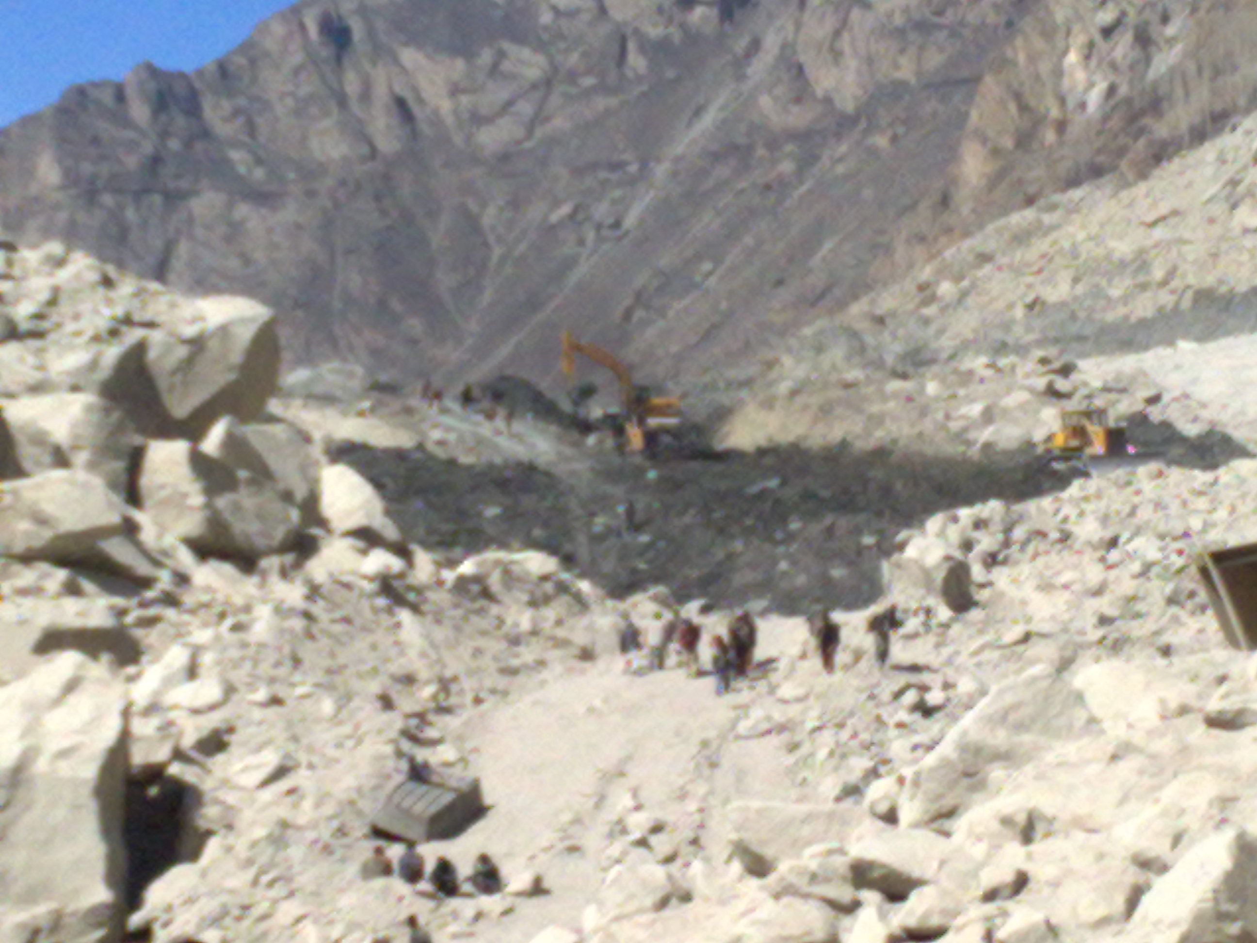 40,000 people with residents from up to 34 villages which have already been evacuated to safer areas. water level in the lake is rising about one meter per day due to increase in water inflow which is overflowing through the spillway made by the FWO( Frontier Works Organization ). seven helicopters of Pakistan Army, Cabinet Division and Agha Khan Foundation would be ready to cater to any unforeseen event. Rebuilding of the affected portion of the Karakoram Highway would also depend on the future scenario. The National Highway Authority construct a road, worthy for travelling by jeep.wil